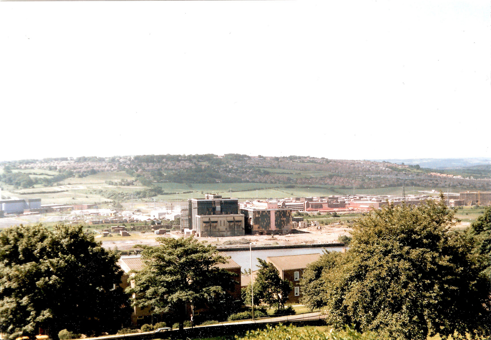 The partially demolished Dunston B power station viewed from St. John's Cemetery in Benwell, with the almost completed Gateshead Metrocentre behind.